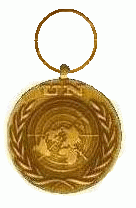 Medal of the UN